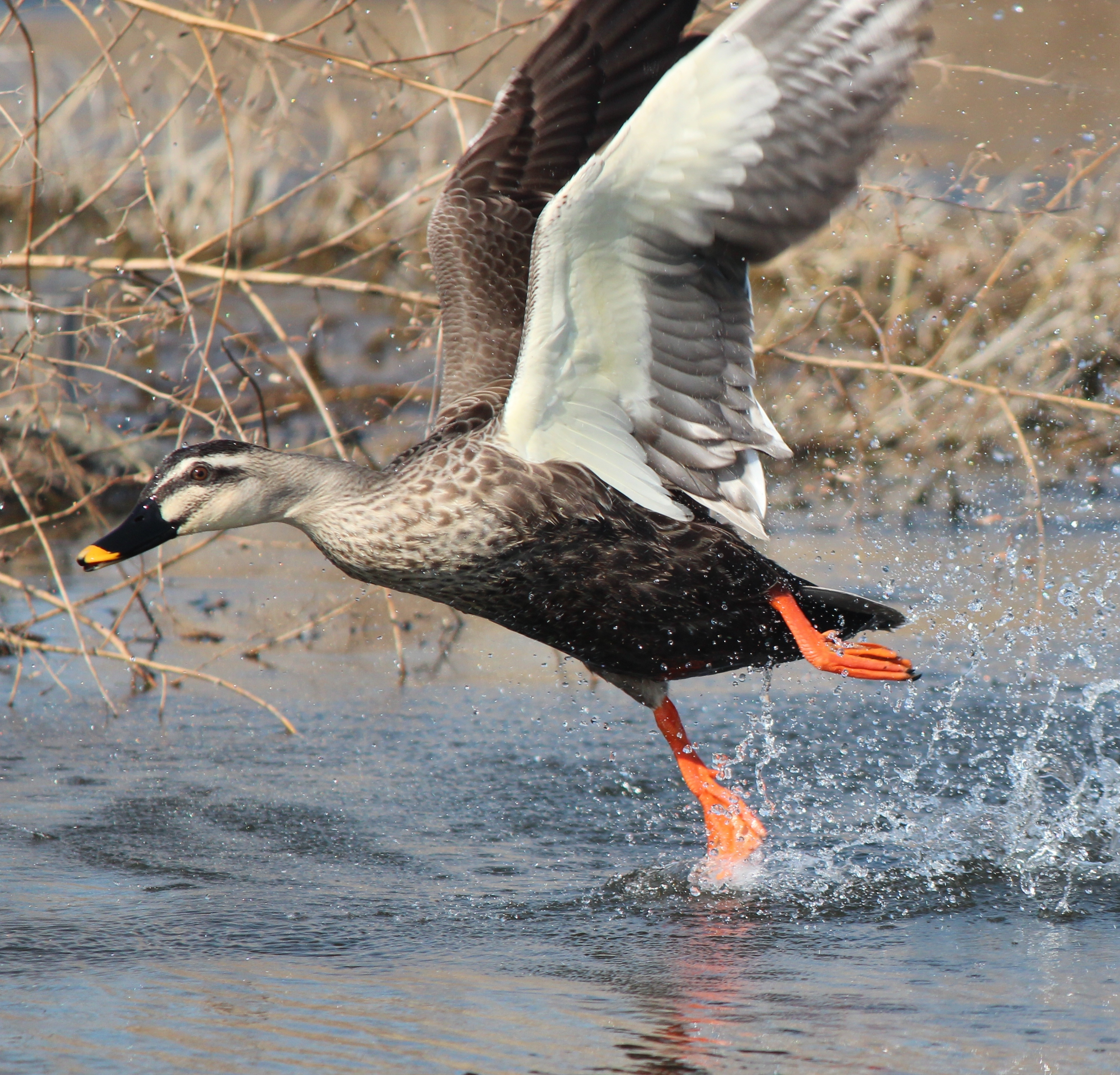 Anas zonorhyncha (Spot-billed Duck) ,starting to fly. The photograph taken before this is File:Anas zonorhyncha takeoff.jpg.